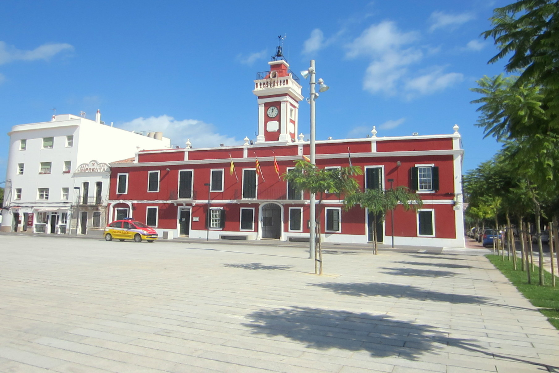 Town hall of Es Castell